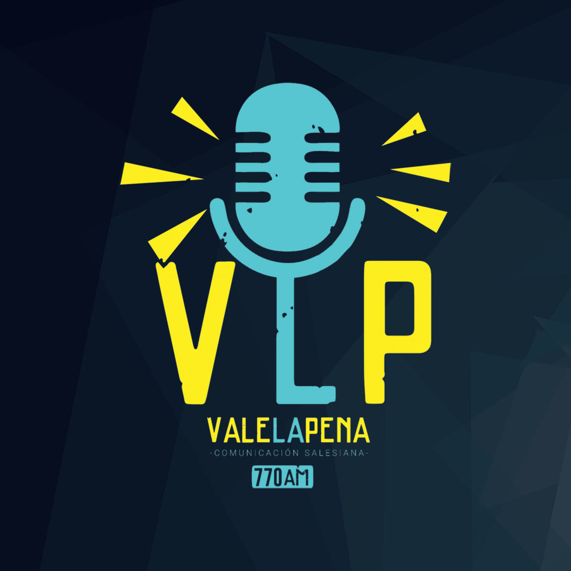 Logo 2020 VLP